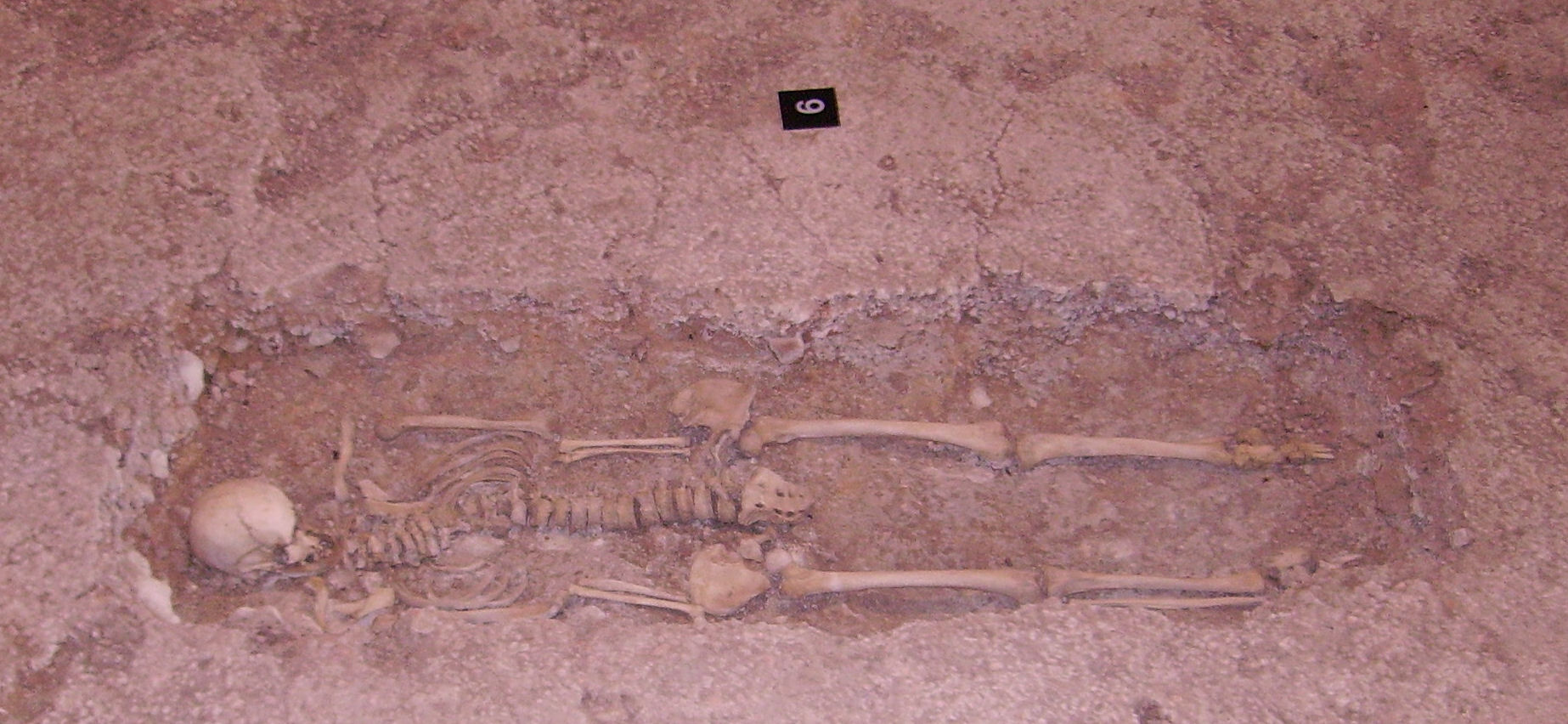 view of Fishbourne Roman Palace in West Sussex, United Kingdom